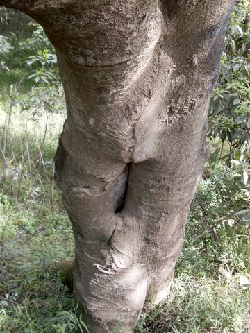 trunk of Celtis Paniculata, Bass Point